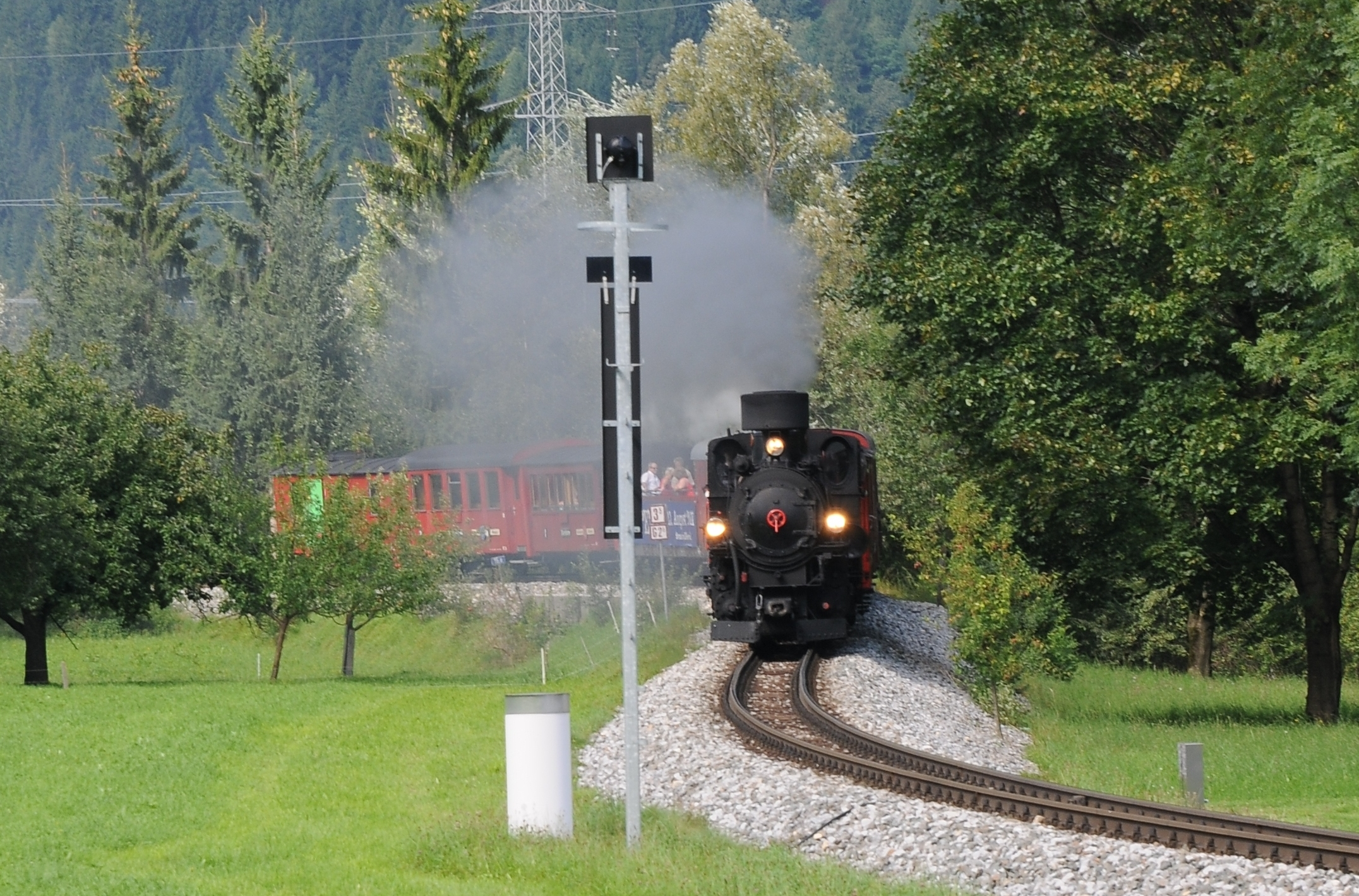 Zillertalbahn No.4, former Yugoslavian States Railway JDŽ 83-076.